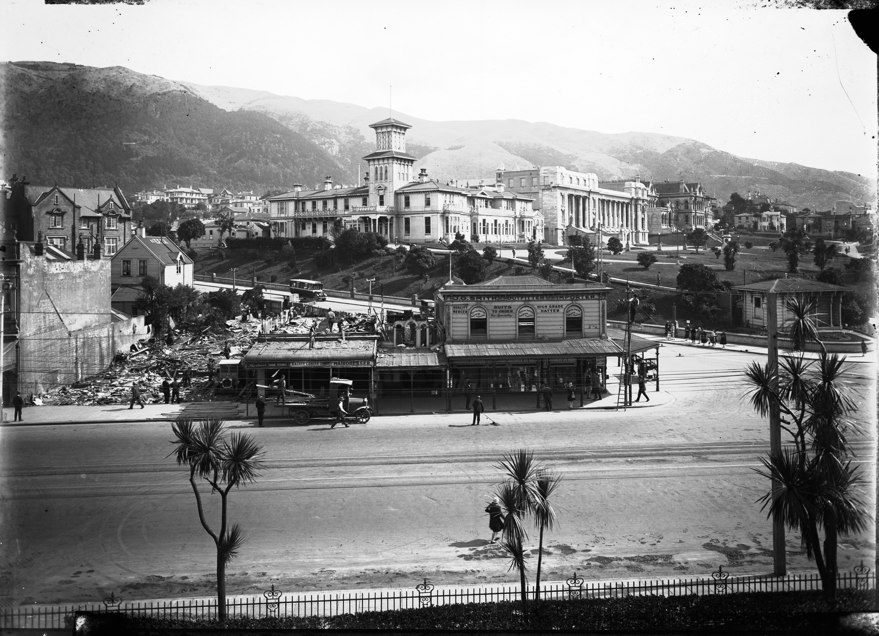 Wooden buildings are being demolished to make way for the construction of the Cenotaph. Government House, Parliament Buildings and Turnbull House are in the background. Photographer: Unknown (Wellington City Council archive reference: 00155:0:44) When the picture was taken, Bowen Street met with Lambton Quay about 60 metres north-east of where it is now - on the other side of the Cenotaph. The intersection was changed in the late 1930s as part of the work to extend Bowen Street to Tinakori Road, to help ease traffic congestion and shorten the route between the central city and Karori. The original end to Bowen Street existed until the early 1970s, when it was landscaped into the paved park between the Cenotaph and the gates to the Parliament grounds.